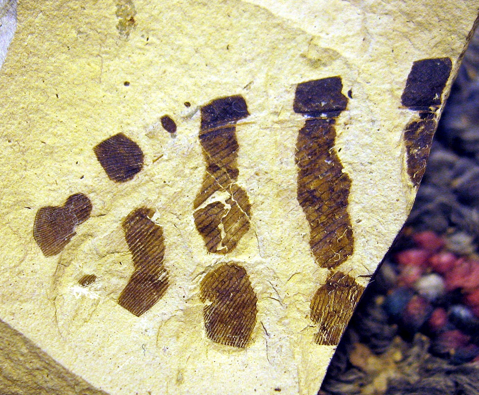 Palaeopsychops marringerae Holotype. A 3.5cm wing, with extremely well defined color-patterning as vertical light and dark banding. "Both hill" Klondike Mountain Formation, Republic, Ferry County, Washington, USA, Eocene, Ypresian, (~49.5 myo). Stonerose Interpretive Center Collection #SR 97-08-05